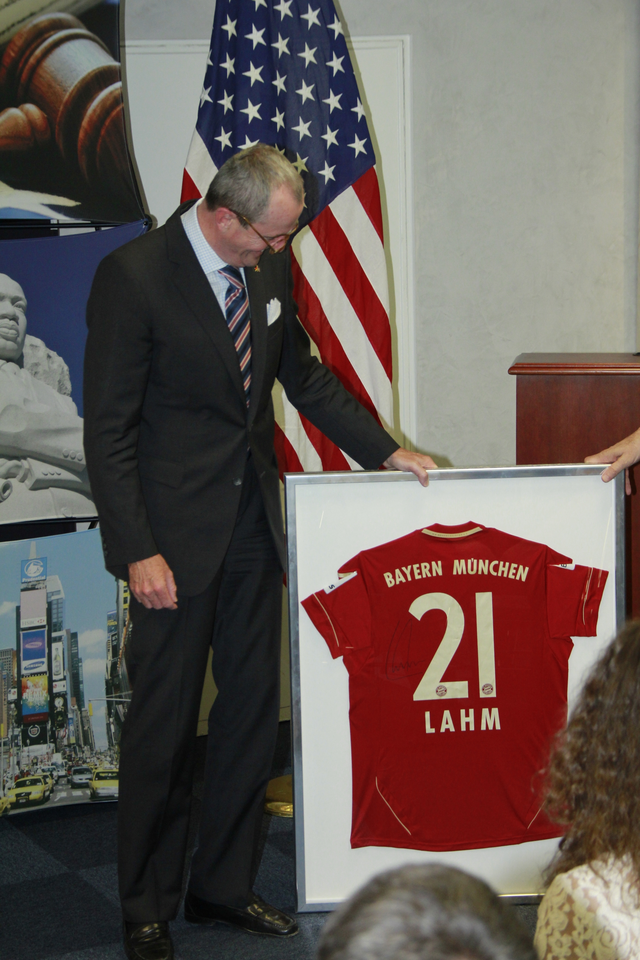 US Ambassador Philip D. Murphy with a Philipp Lahm jersey, 2013